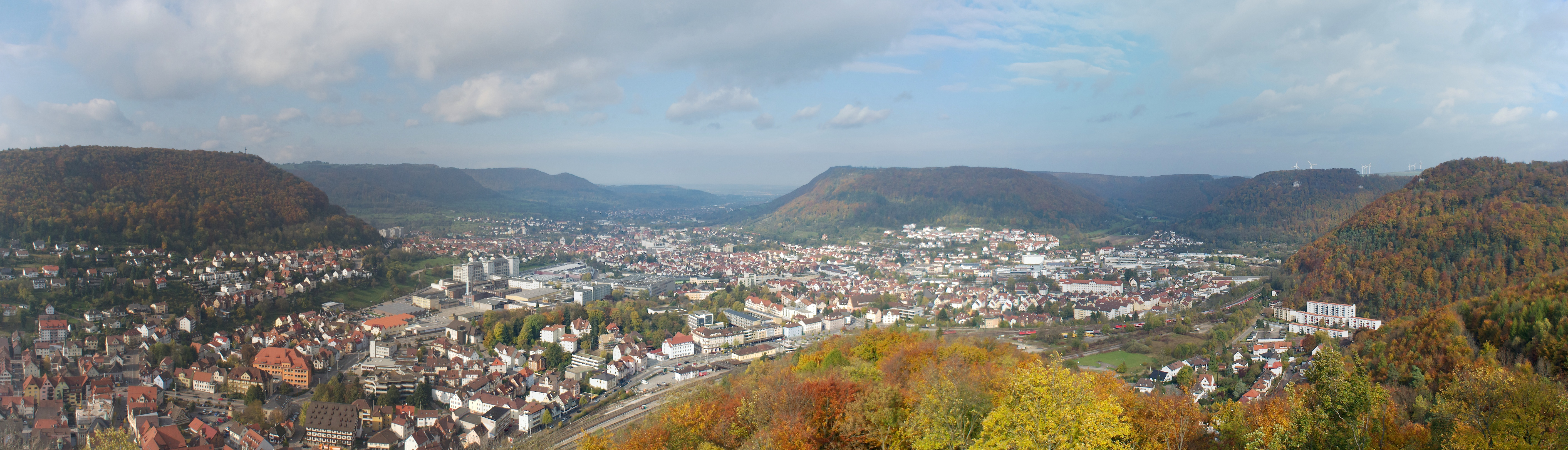 Panorama of Geislingen an der Steige, Germany